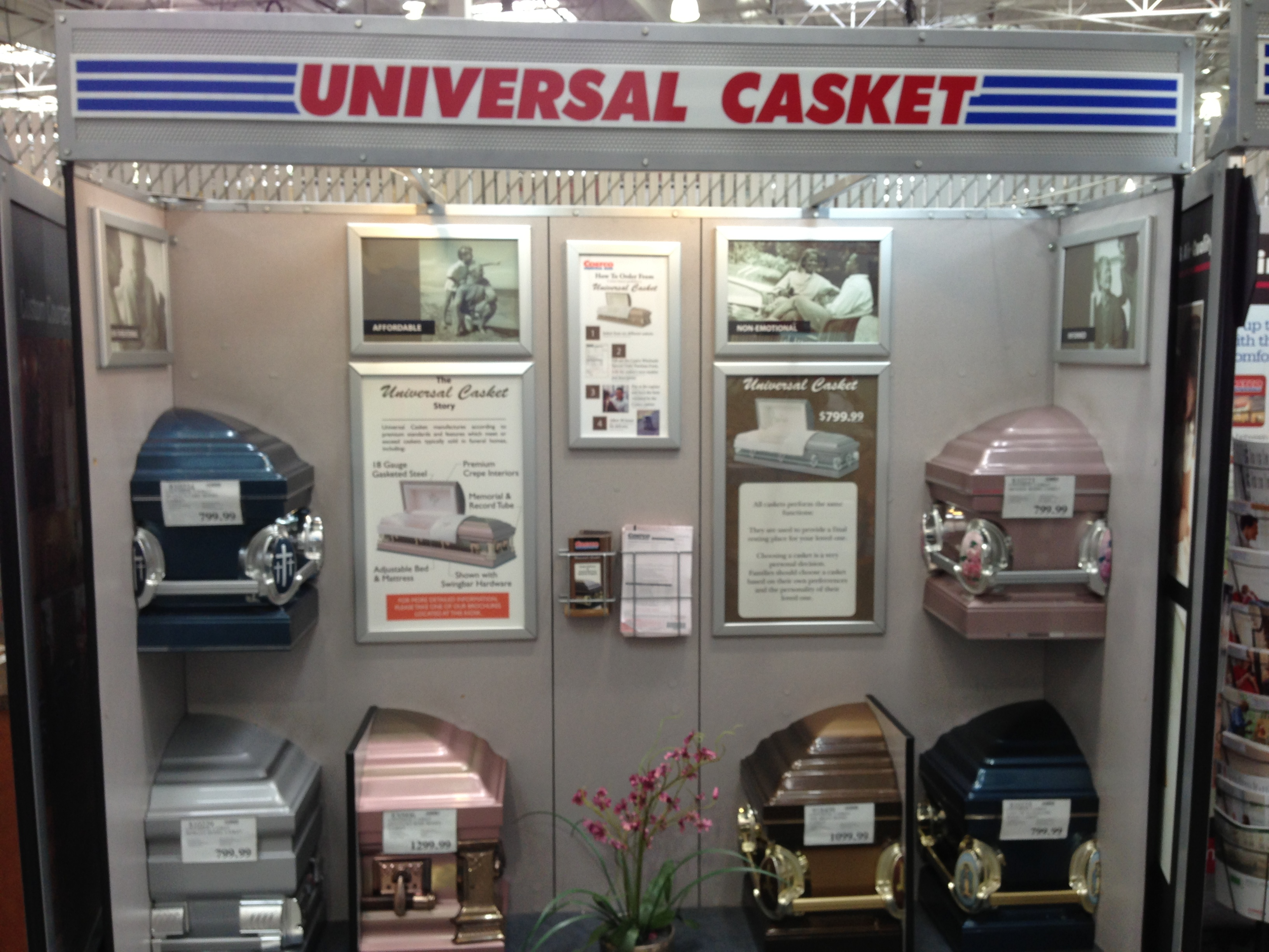 Universal Casket sales kiosk within a U.S. Costco warehouse retail store in California. Steel caskets available from $799. Delivery in 48 hours to 33 states and Washington, DC. Illustration of cradle-to-grave consumerism.